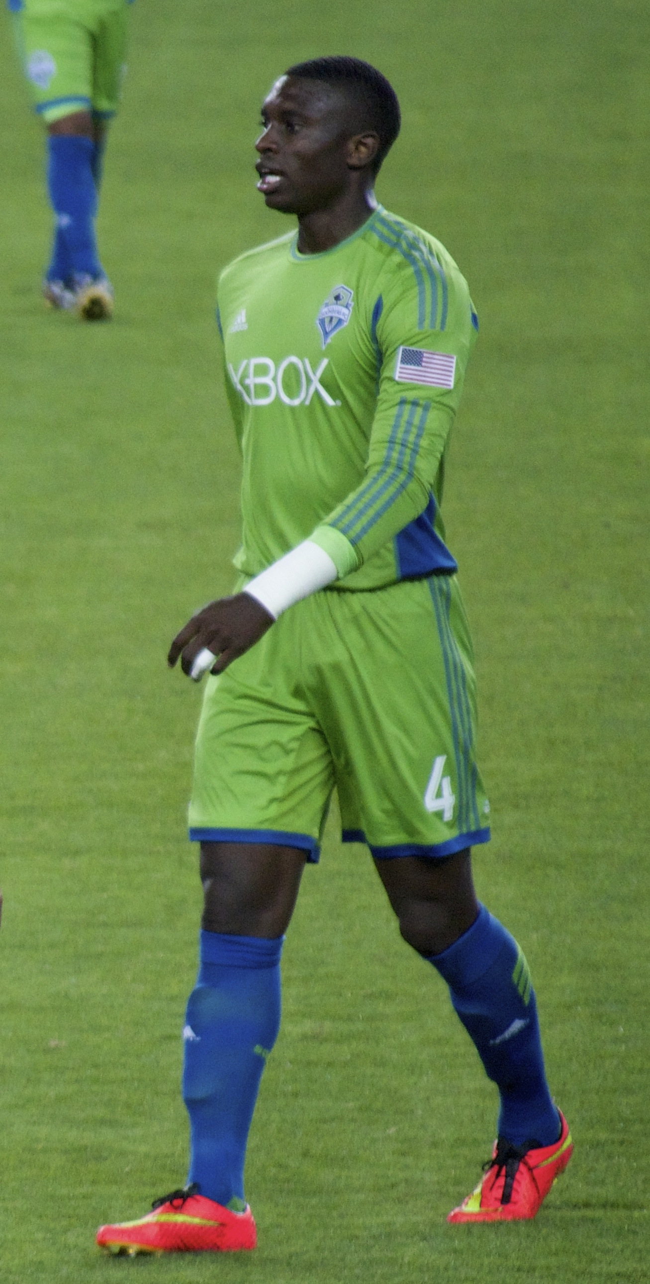 Jalil Anibaba, Levi Stadium inaugural game, Seattle Sounders vs San Jose Earthquakes, Santa Clara, California